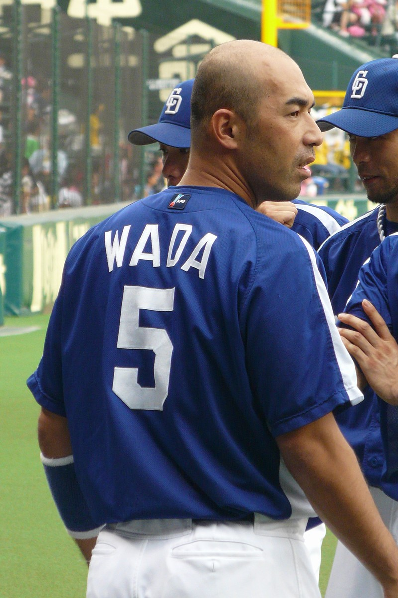 Chunichi Dragons/Kazuhiro Wada